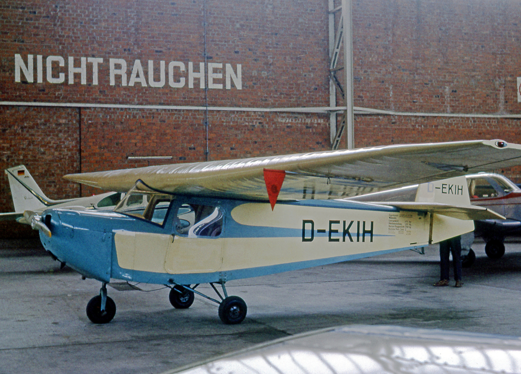 Dittmar HD 153 Motor-Move D-EKIH at Stuttgart Airport in 1965